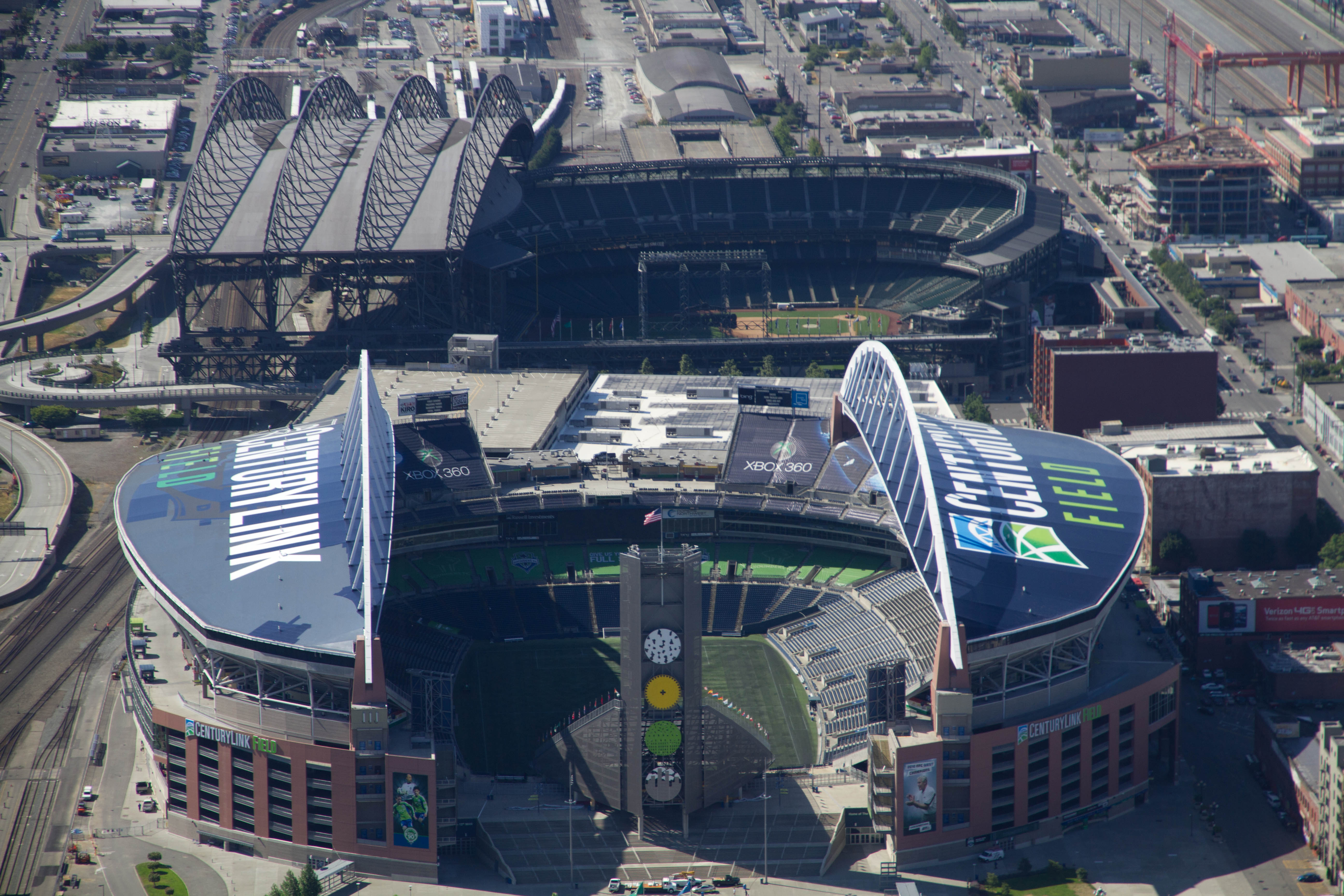 "Centurylink" Field, Safeco Field